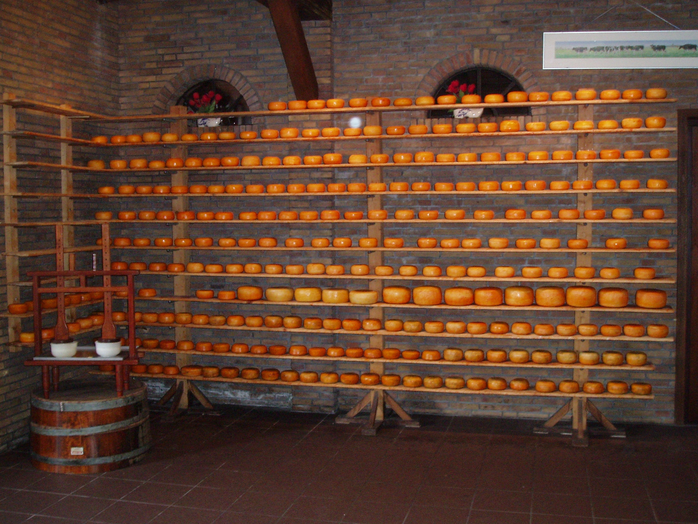 In cheese manufacture in Alida Hoeve the the Netherlands